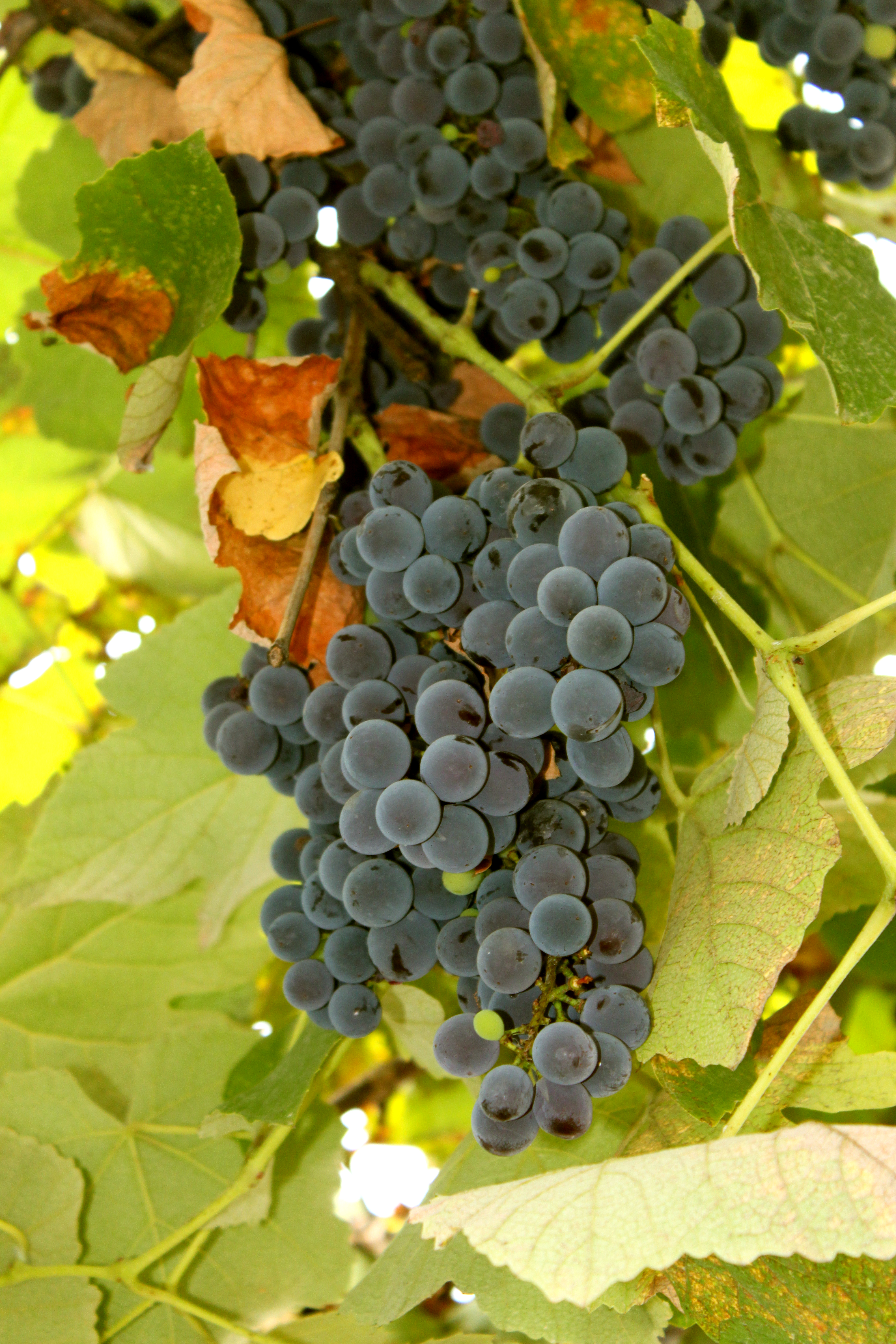 Qara üzüm